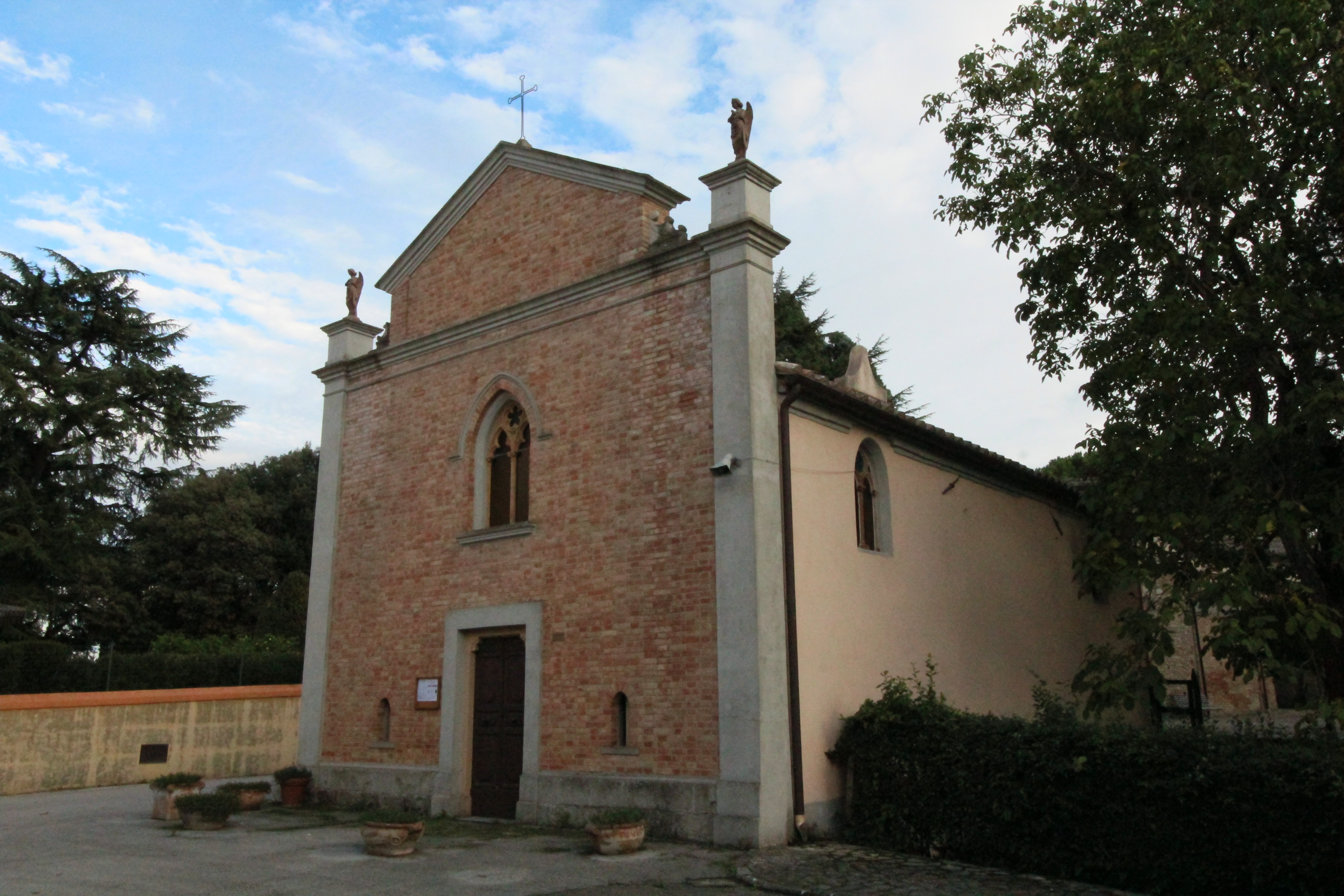 Church Chiesa della Madonna del Buon Consiglio in Collepepe, hamlet of Collazzone, Province of Perugia, Umbria, Italy